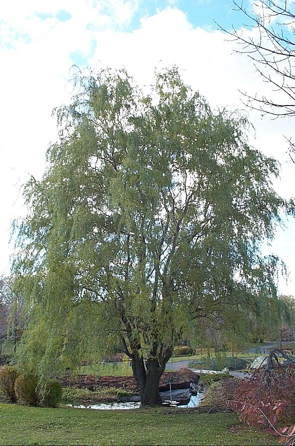 A Peking willow at the Jardin botanique de Montréal. Photo by Montréalais.